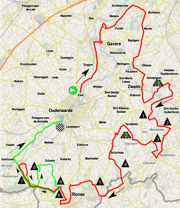 Map of the Ronde van Vlaanderen vrouwen 2012.